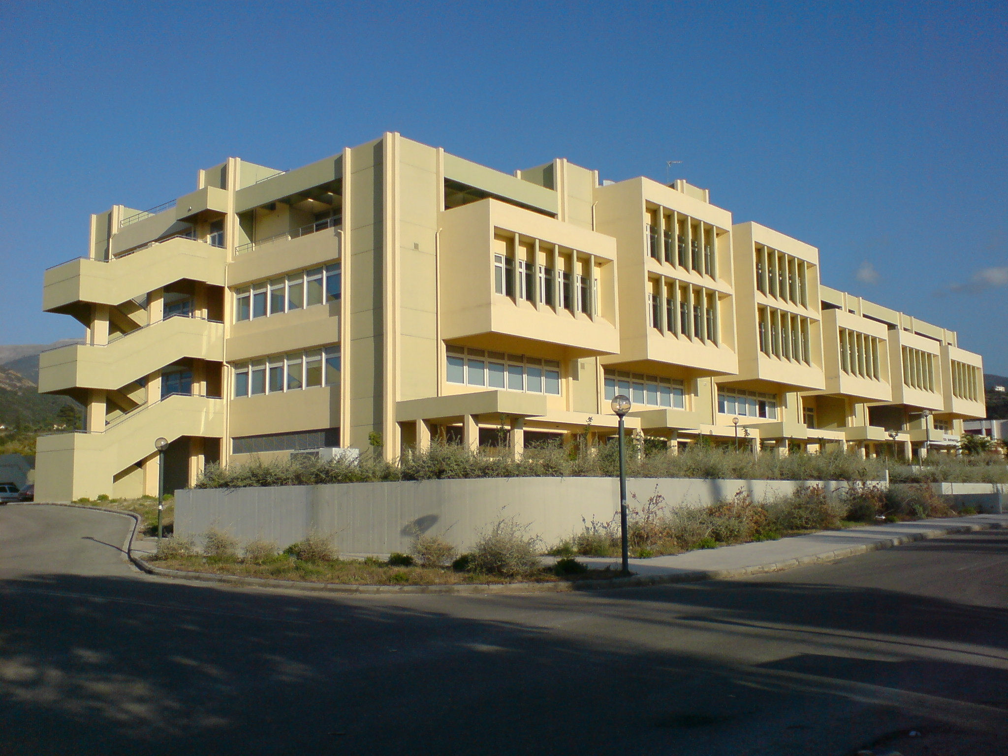 Library & Information Service (LIS) - University of Patras, Greece. Taken in the evening of 11-07-2007.